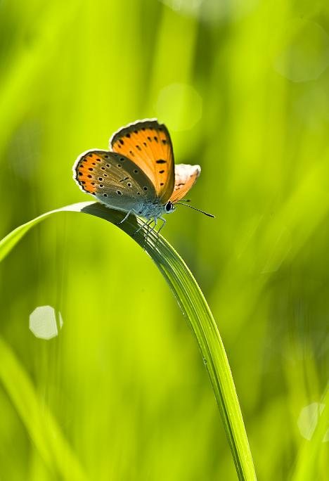 Lycaena phlaeas